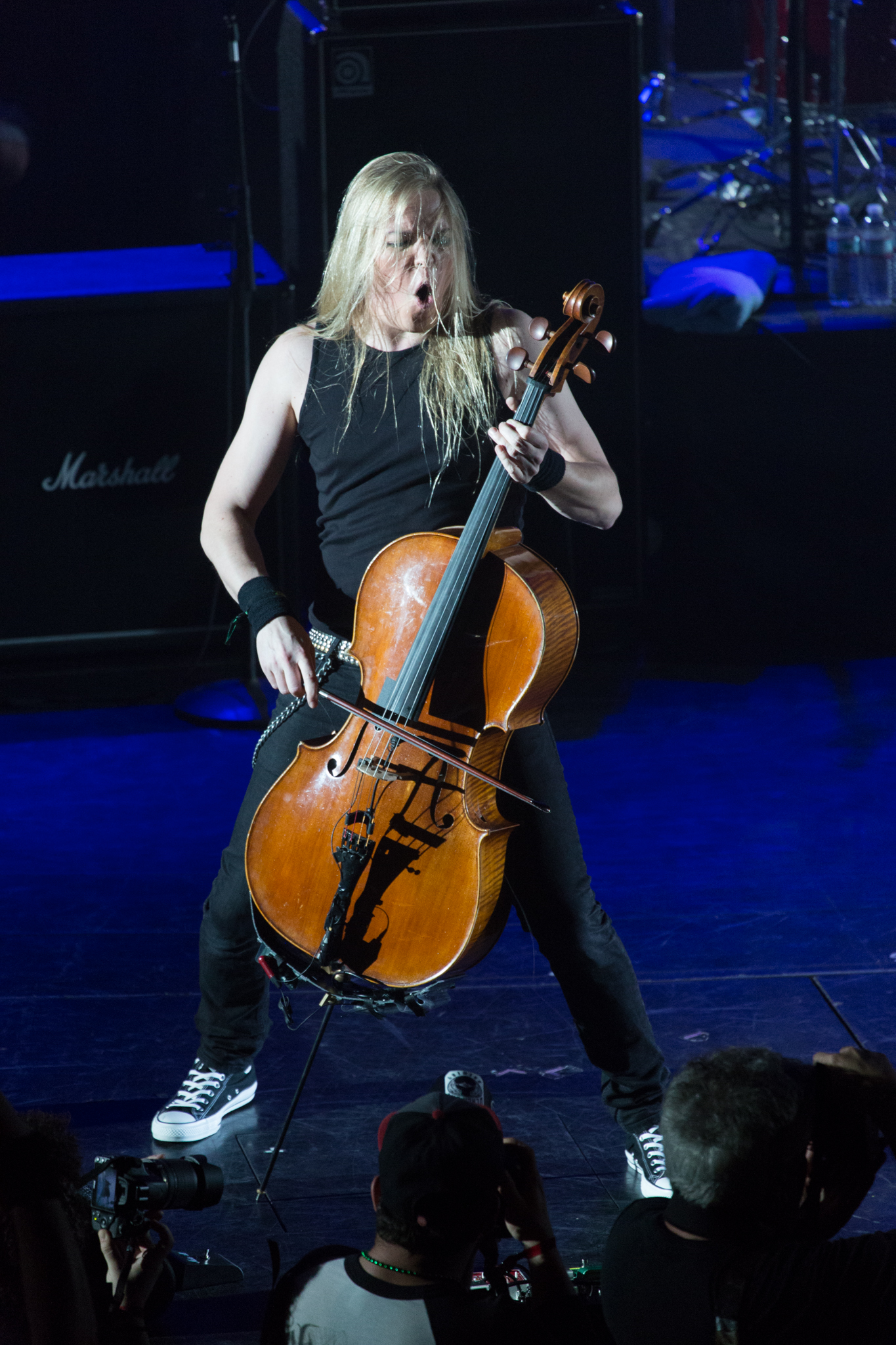 Apocalyptica performing at 70.000 tons of metal, january 2015